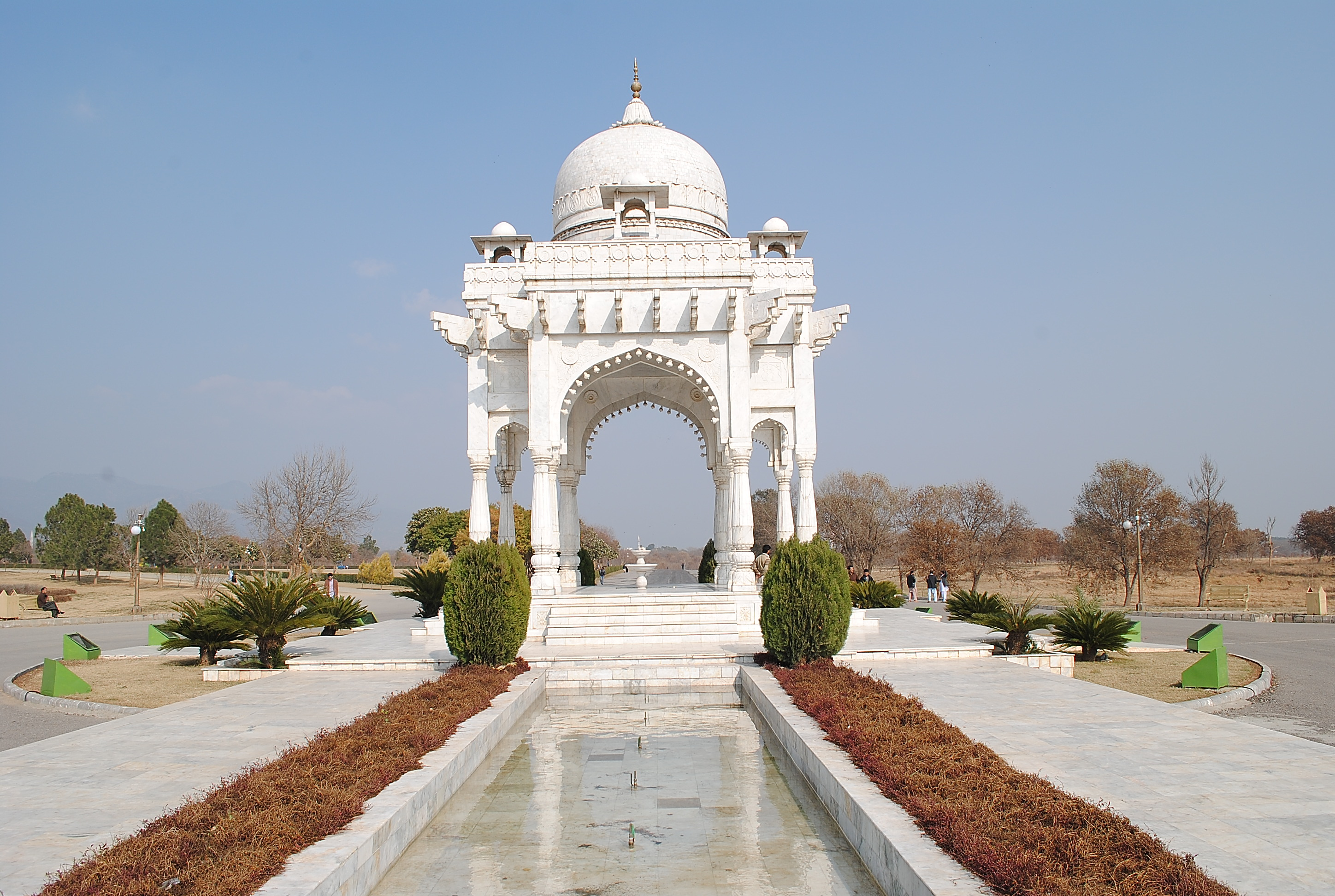 Fatima Jinnah Park baradri This is a photo of a monument in Pakistan identified as the ICT-39